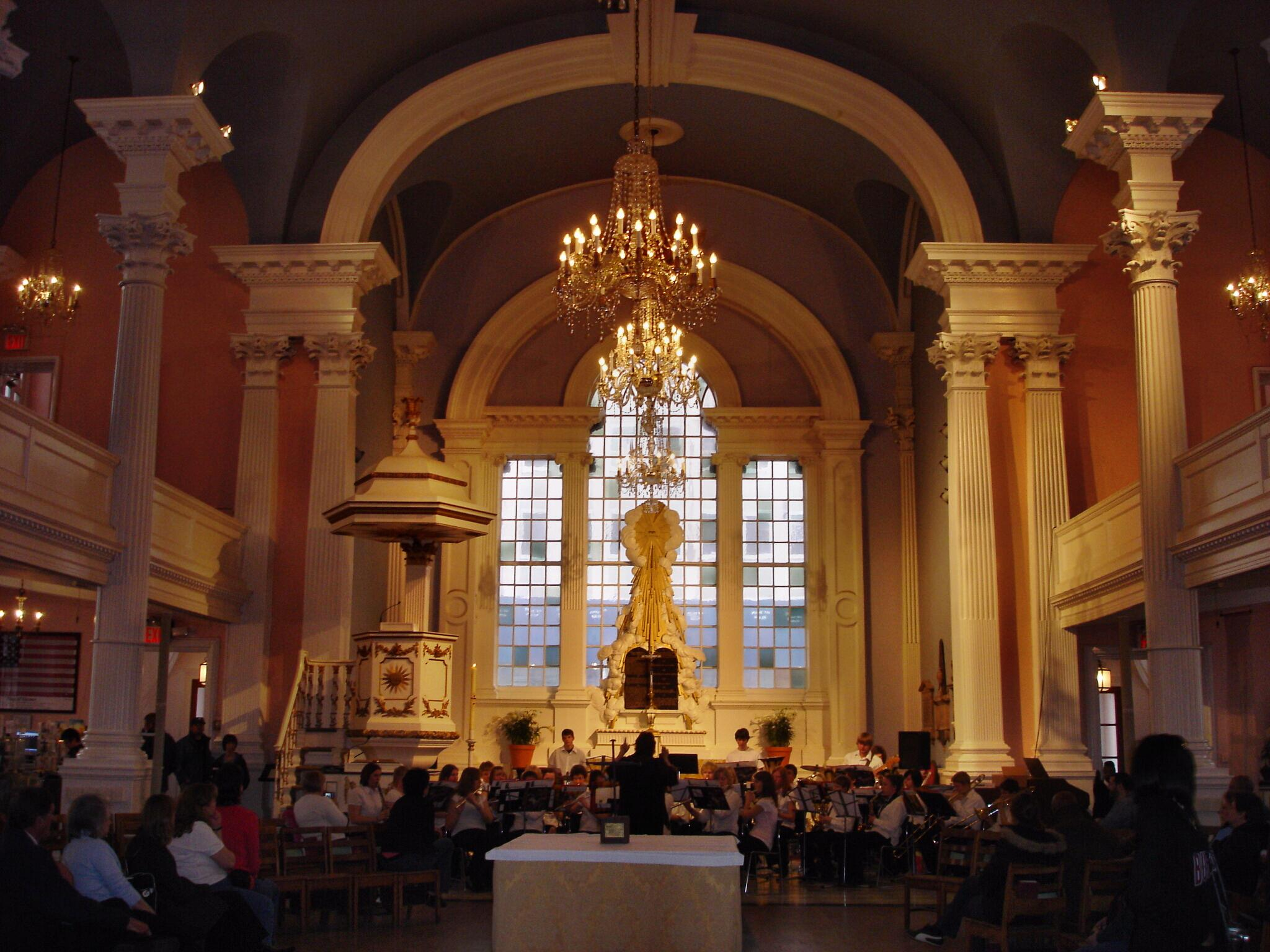 This photo is of Wikipedia Takes Manhattan location code 172, St. Paul's Chapel.